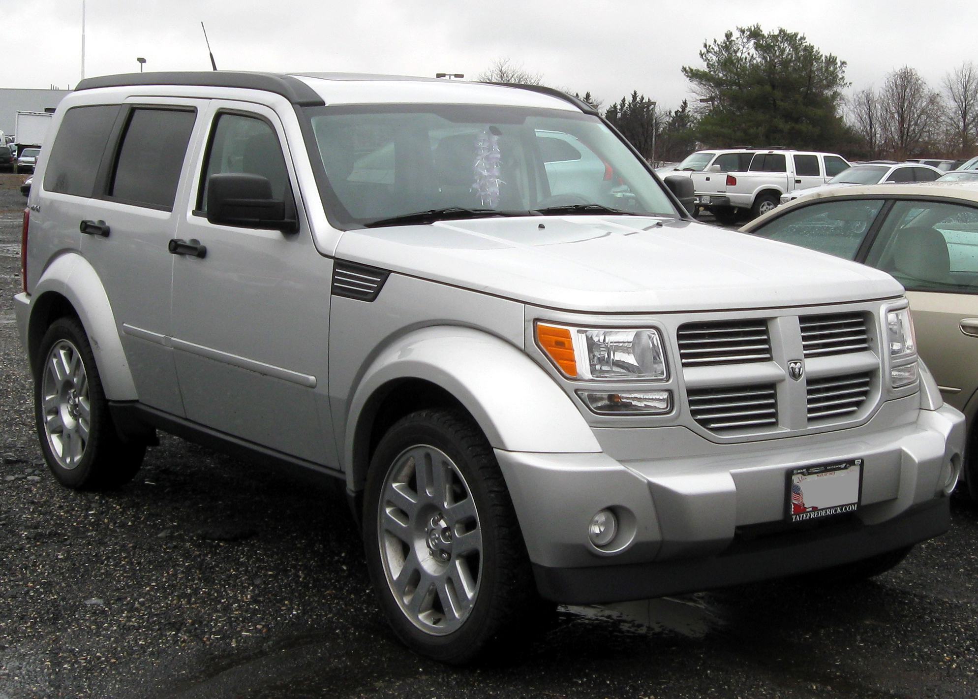 Dodge Nitro photographed in Silver Spring, Maryland, USA.